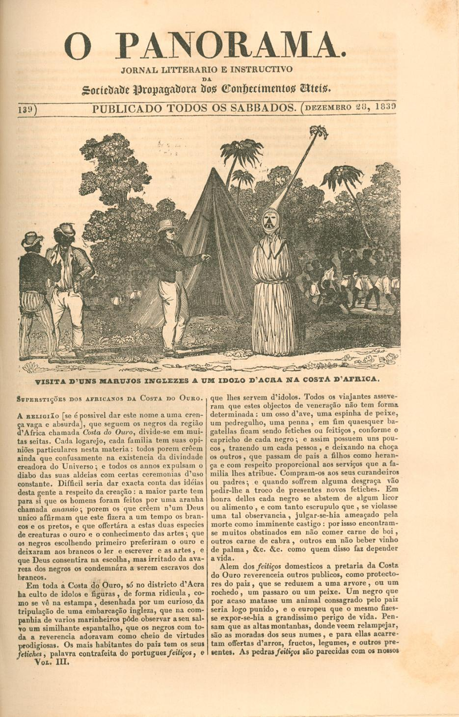 Cover of 28 December 1839 issue of Lisbon magazine O Panorama. Image caption: "Visita d'uns marujos inglezes a um idolo d'acra na costa d'africa."